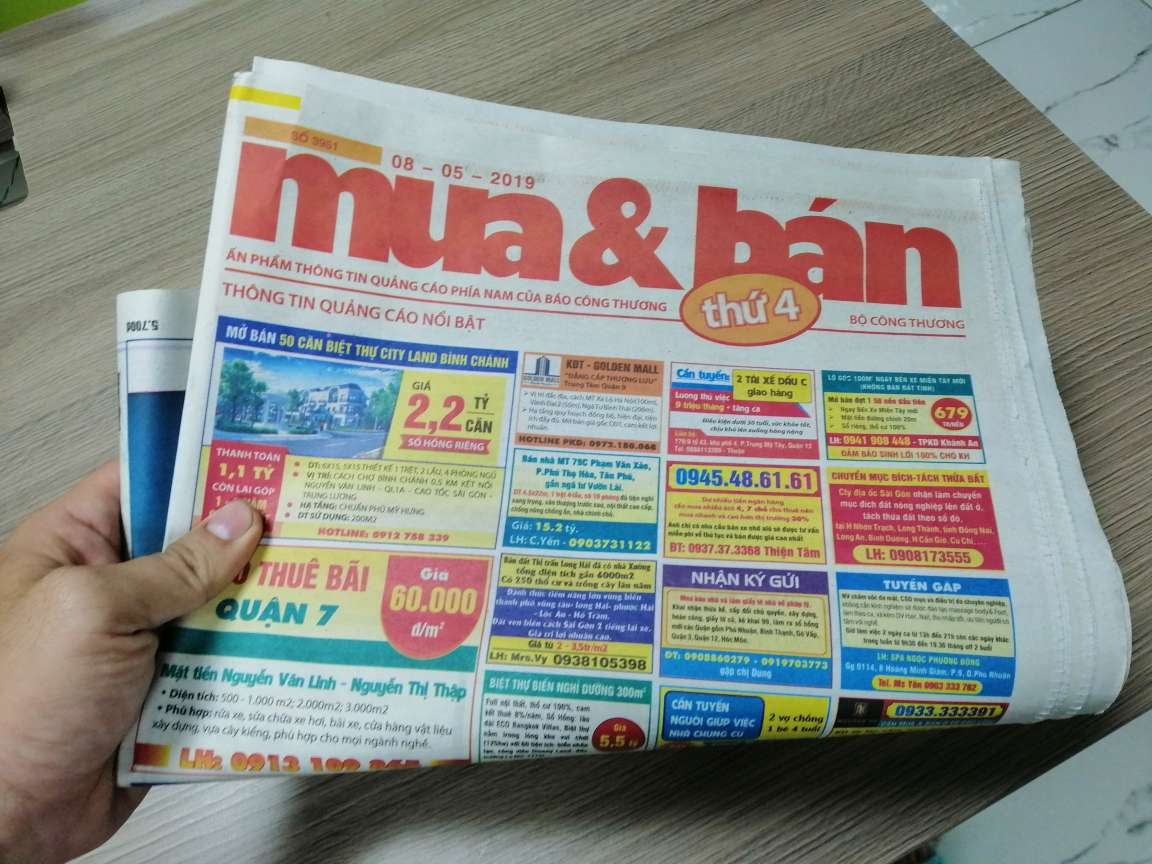 Real image of Mua & Ban publications